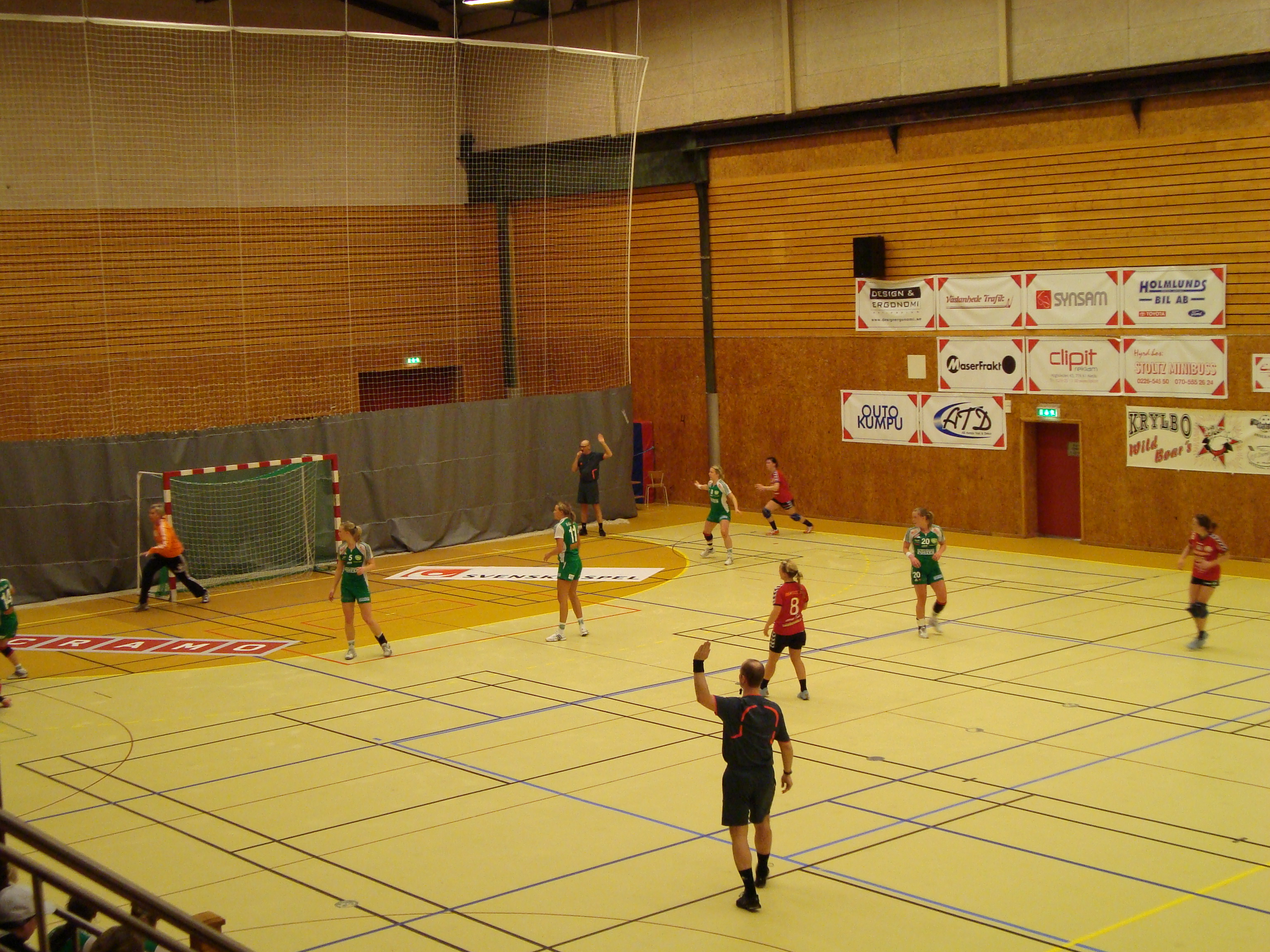 AvestaBrovallen HF vs Skuru IK in Kopparhallen, Avesta, Sweden. Referees warn for passive play.